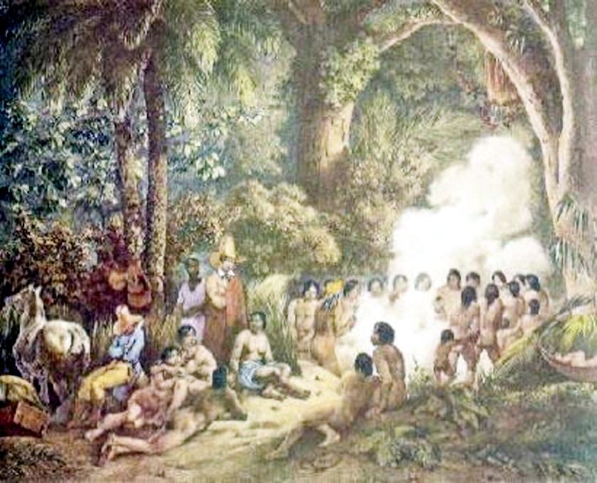 Dance ceremony of the Puris indians.